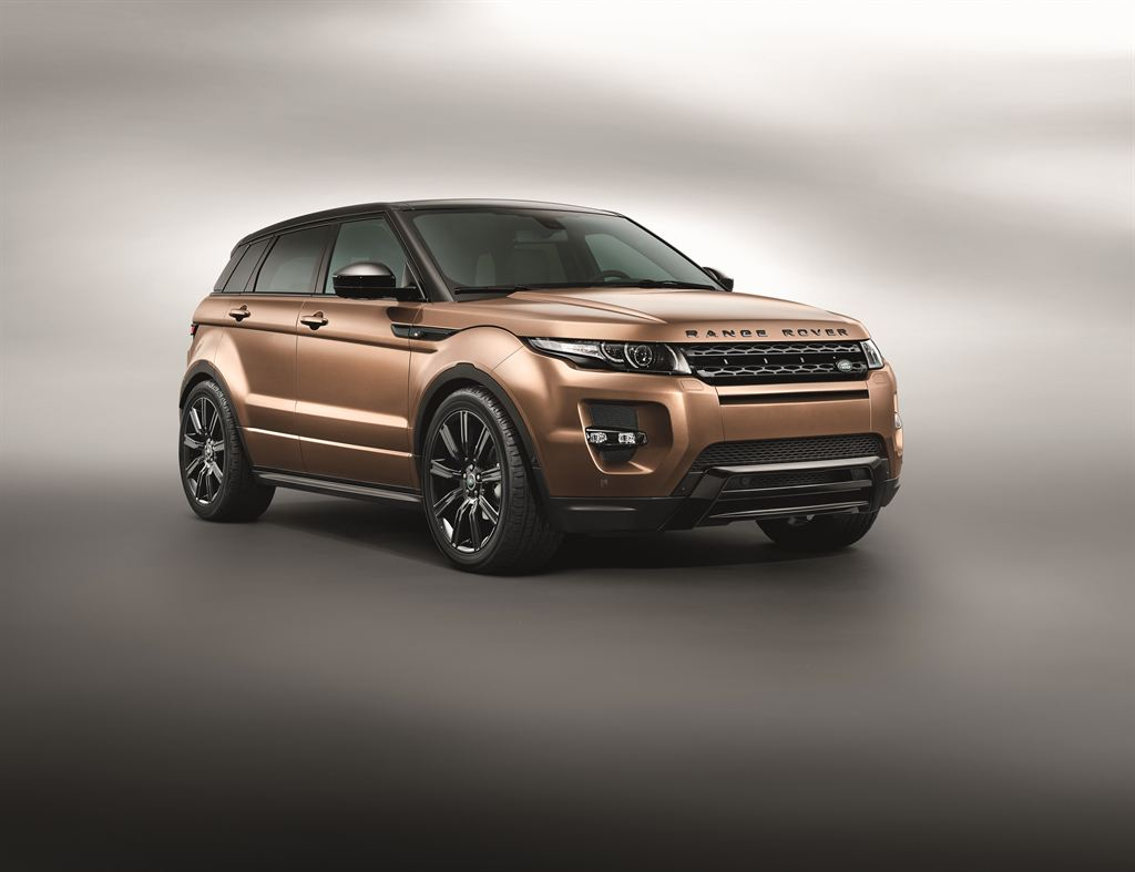 One of the most successful Land Rover vehicles ever made, the Range Rover Evoque, makes a further leap forward with the introduction of a host of new technologies. These enhancements lower fuel consumption by up to 11.4 percent and reduce CO2 emissions by up to 9.5 percent - depending on model - and bring a range of new comfort, convenience and connectivity features.